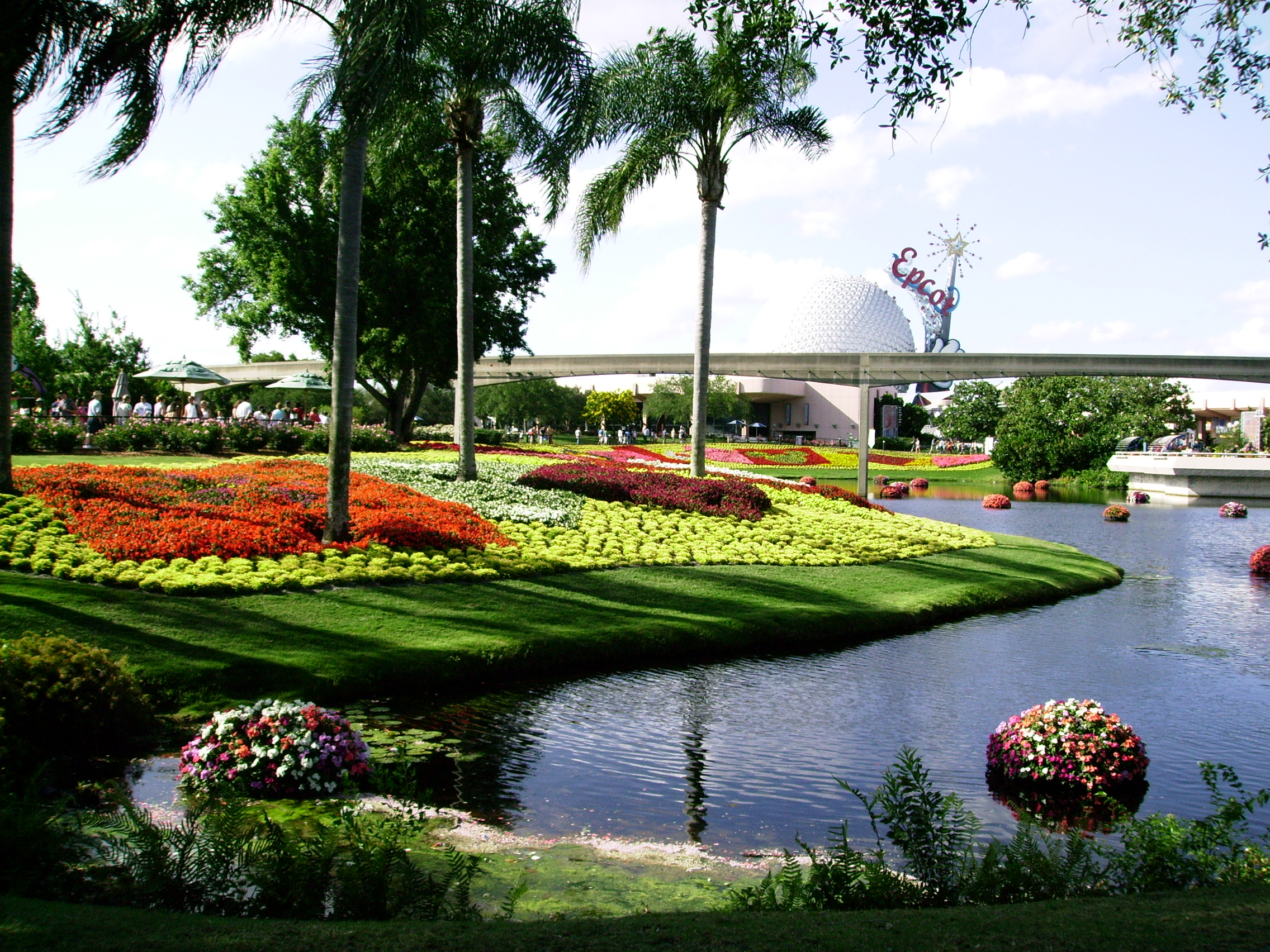 This image shows the landscape of Epcot which includes many flowers, lakes, and trees, as well as the famous Spaceship Earth and the Walt Disney World monorail.